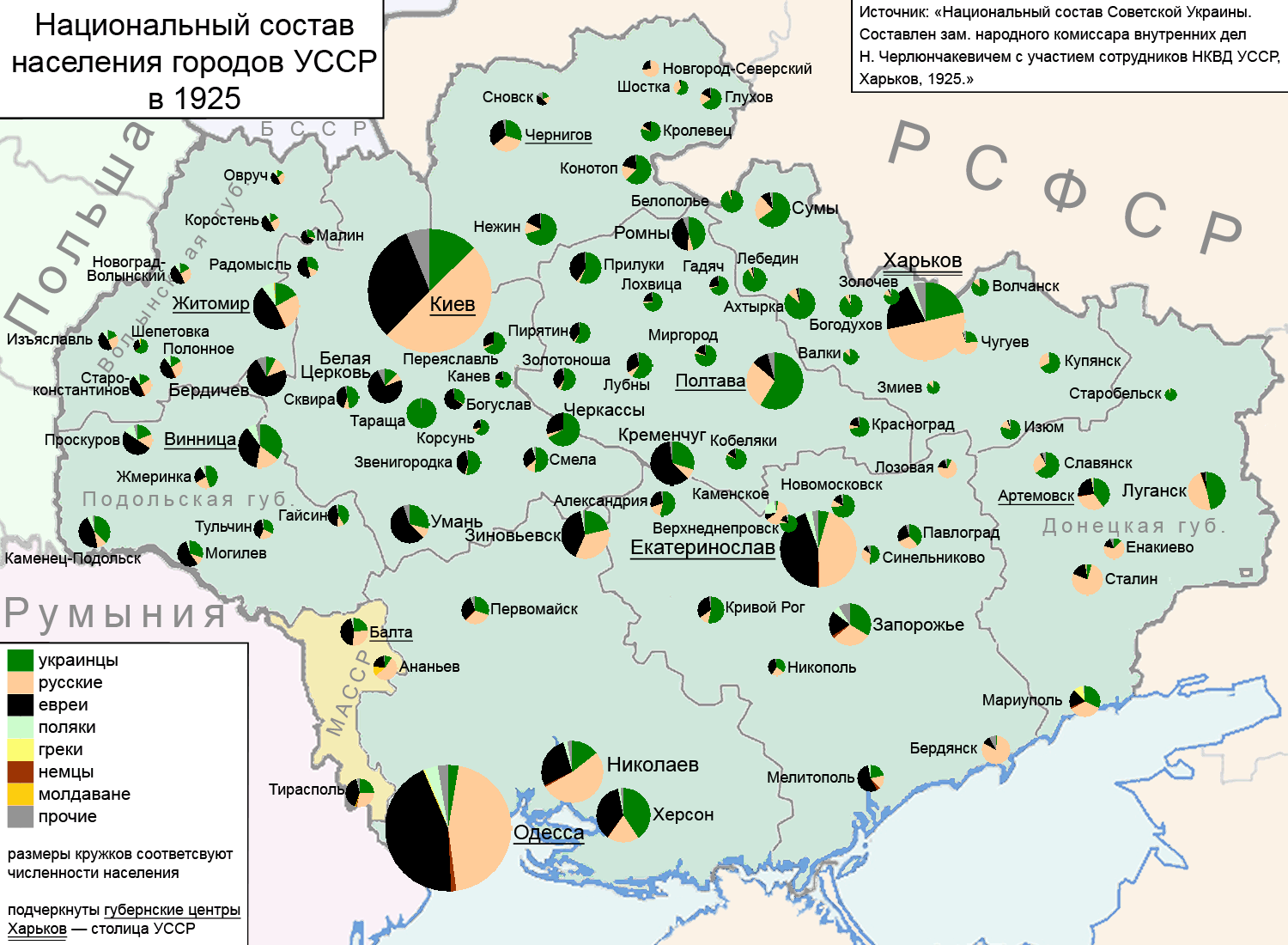 City population of Ukraine in 1925